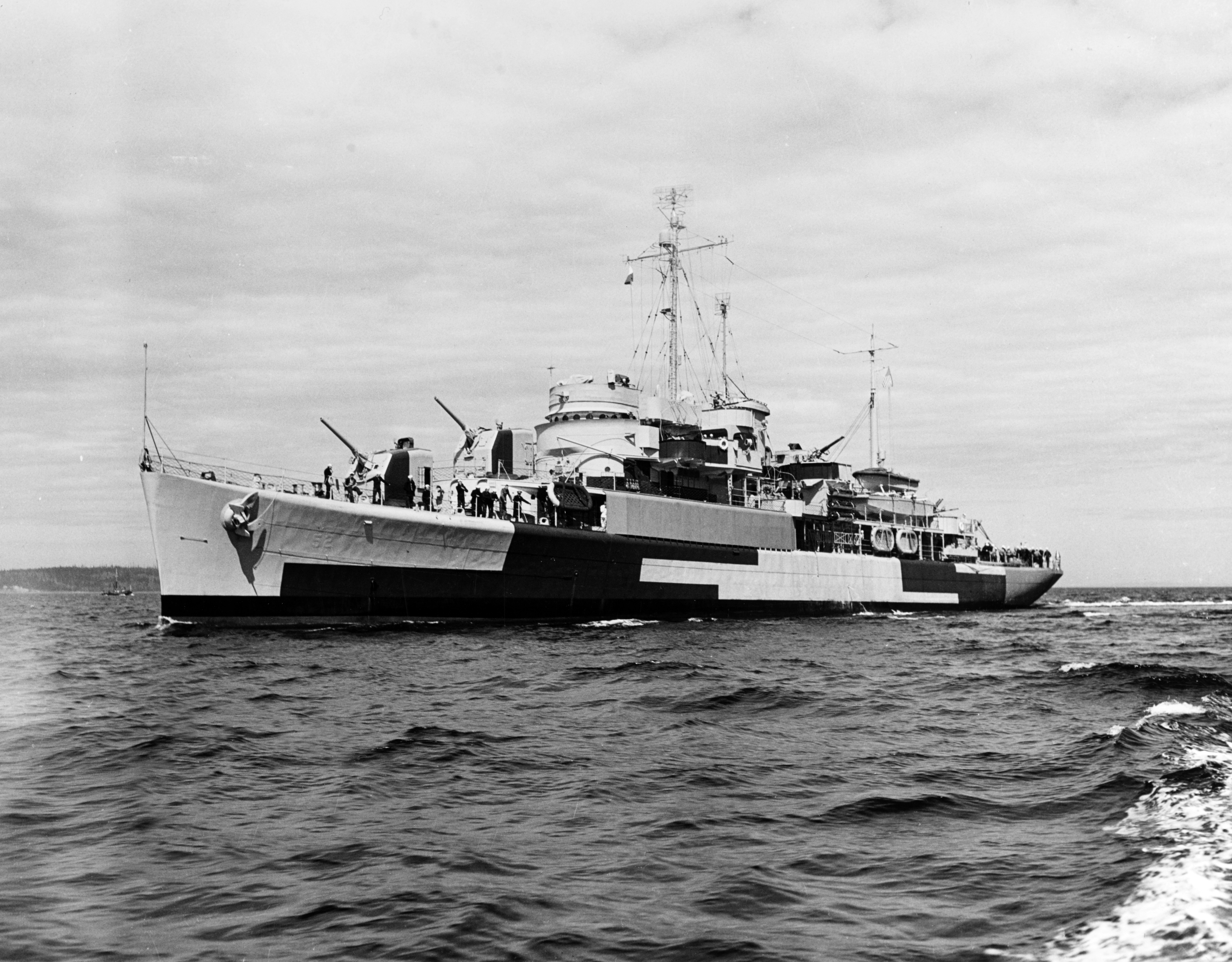 The U.S. Navy small seaplane tender USS Shelikof (AVP-52) underway off Houghton, Washington (USA), on 26 April 1944, about a week after commissioning. She is painted in Camouflage Measure 32, Design 2Ax.